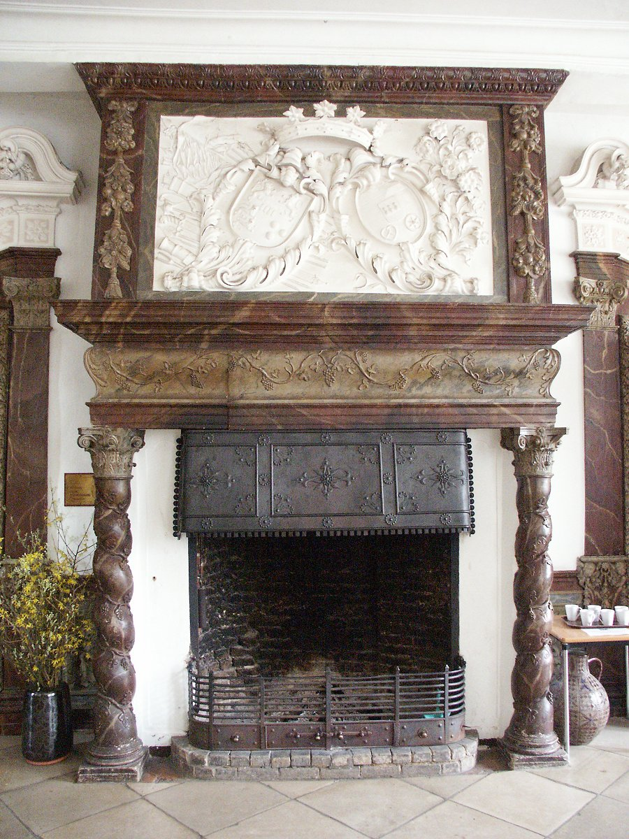 Castle of Gemen - fireplace